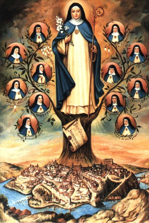 Genealogical tree of the Conceptionist Order, with remarkable nuns of the order, end of 19th cent or beginning of 20th cent.